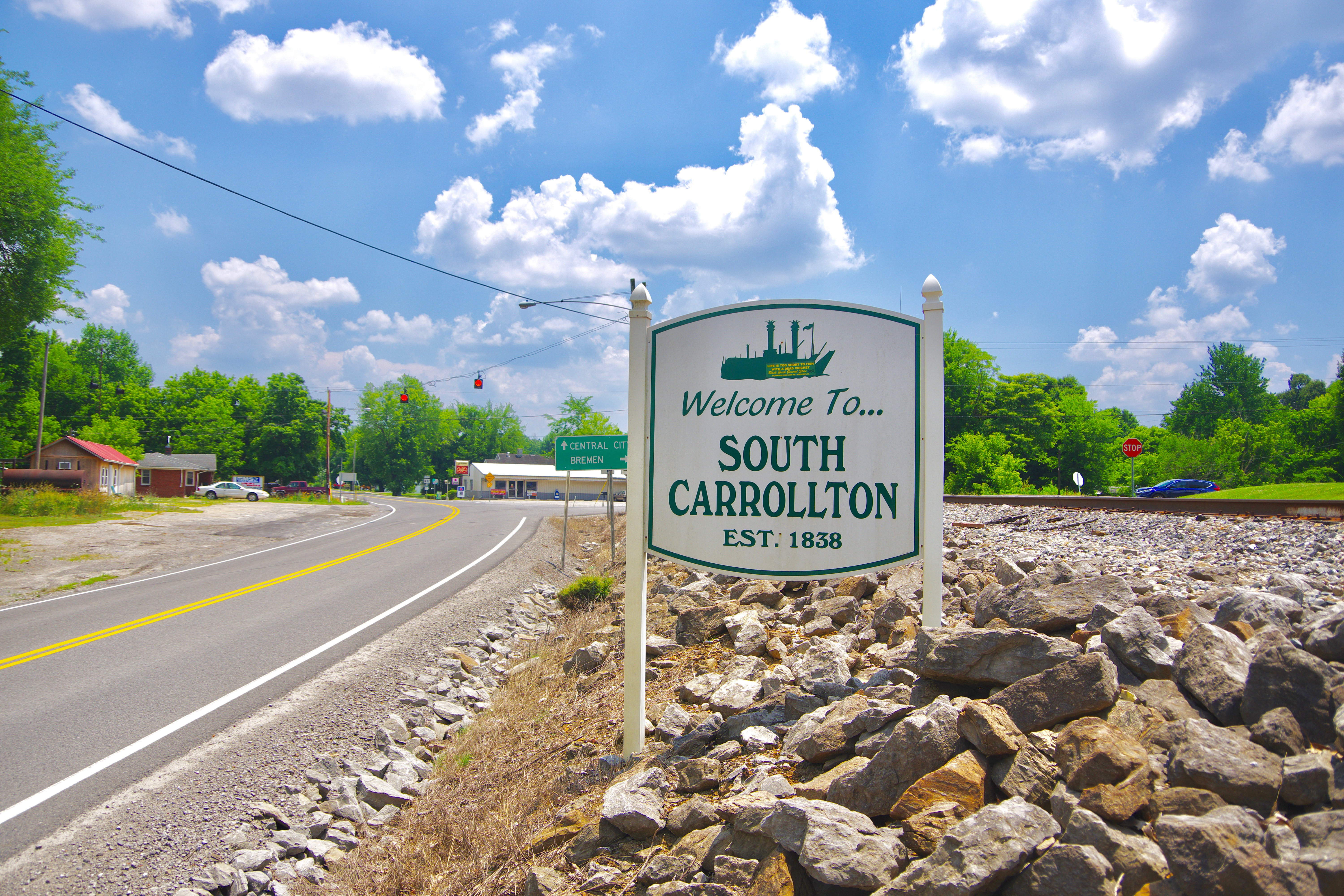 Welcome sign along U.S. Route 431 in South Carrollton, Kentucky, United States.